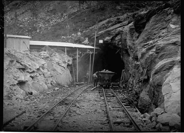 From the mines of Norsk jernverk, Mo i Rana, Nordland, Norway